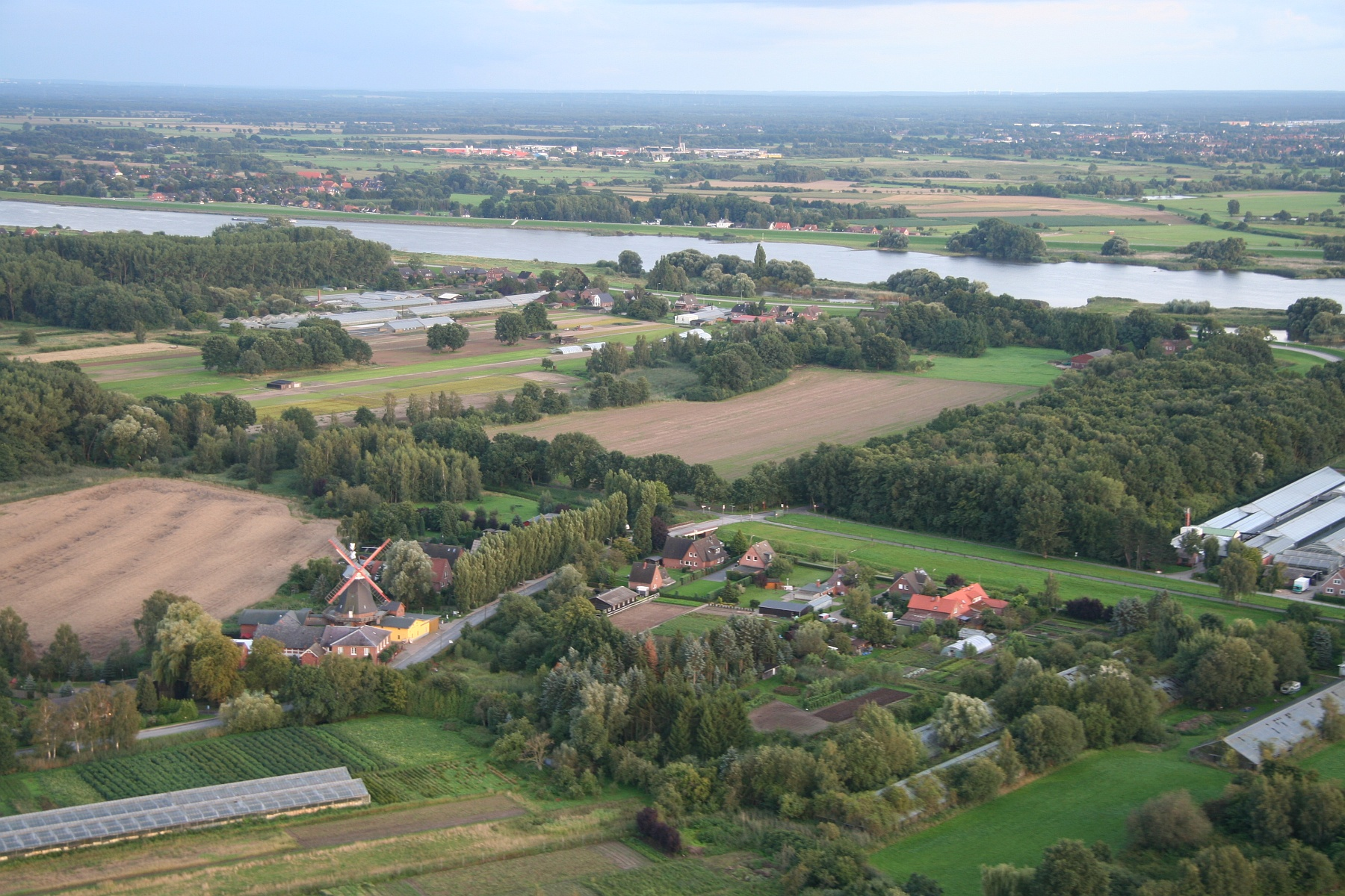 Riepenburg mill in Hamburg-Kirchwerder